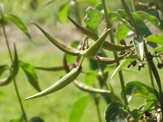 Species: Asclepias purpurascens Family: Asclepiadaceae Image No. 1